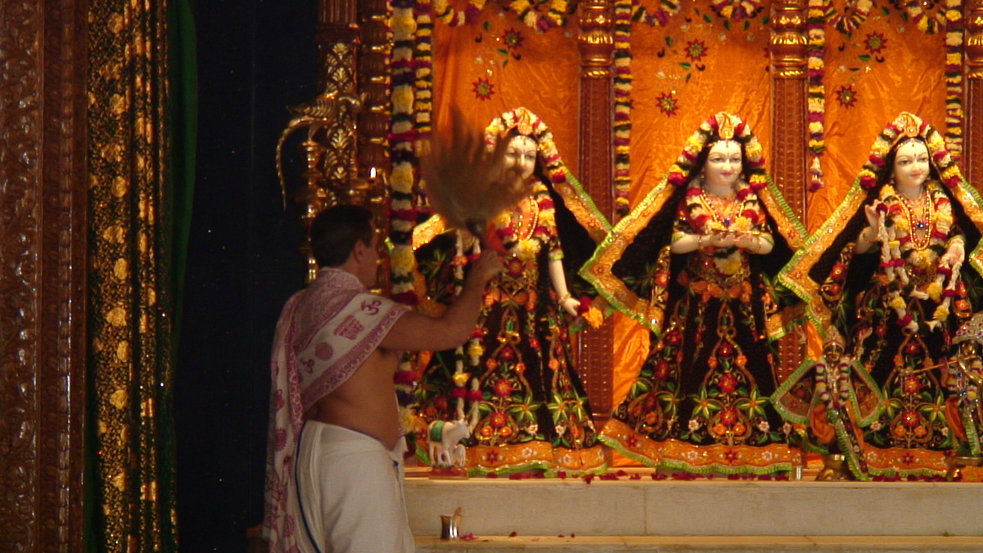 Alfred Ford (Ambarisha Das) making puja for Radha Krishna and eight gopis in ISKCON Tirupati temple